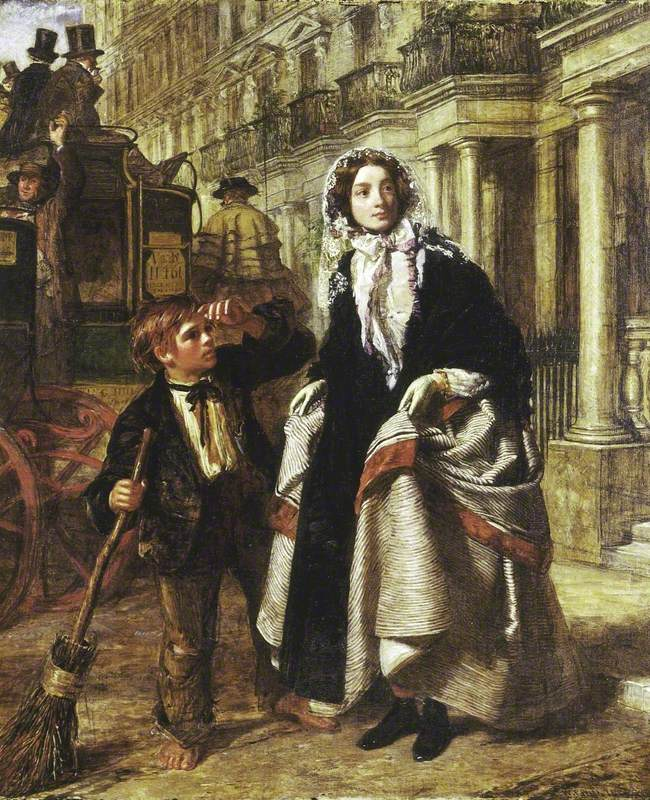 Lady waiting to cross a street, with a little boy crossing-sweeper begging for money.